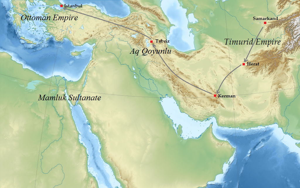 Map showing the travels of Ali Qushji. Sources: [1]